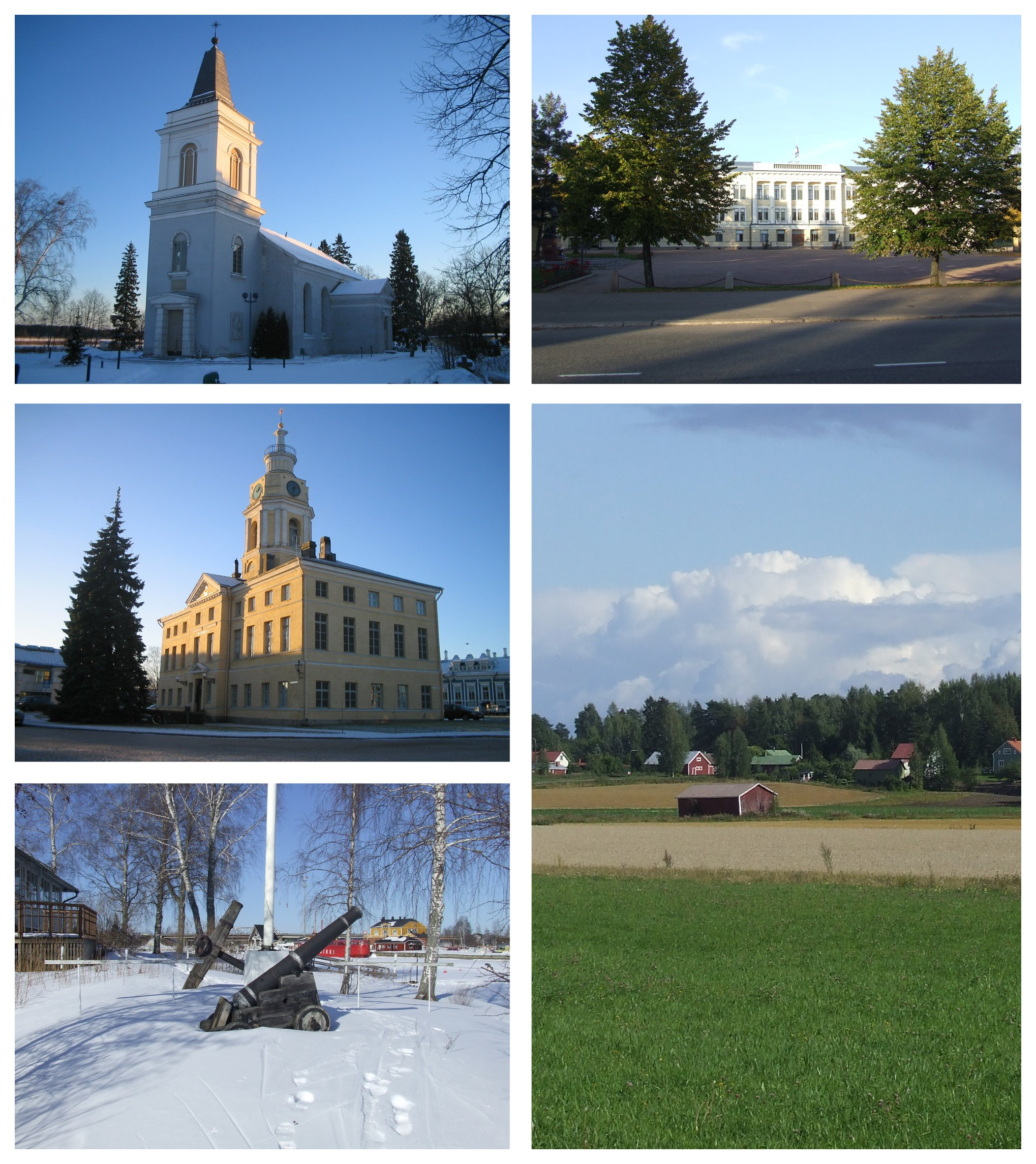 Montage of Hamina, Finland. From upper left: Saint Mary Church, The Reserve Officers' School, view from the Sailor Pavilion towards Tervasaari and the countryside of Husula.